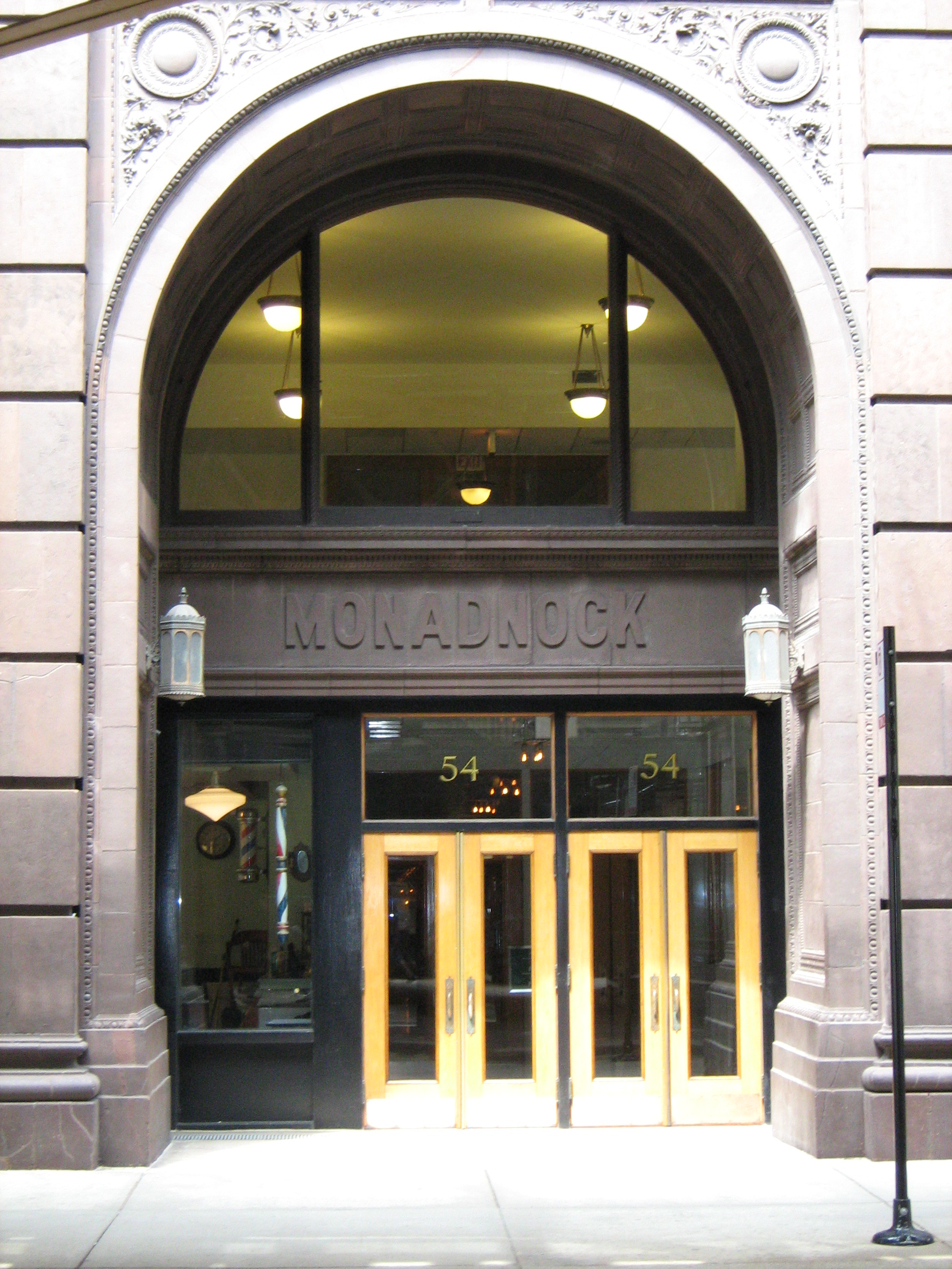 South entrance of the Monadnock Building, 53 West Jackson Blvd., Chicago, Cook County, IL.